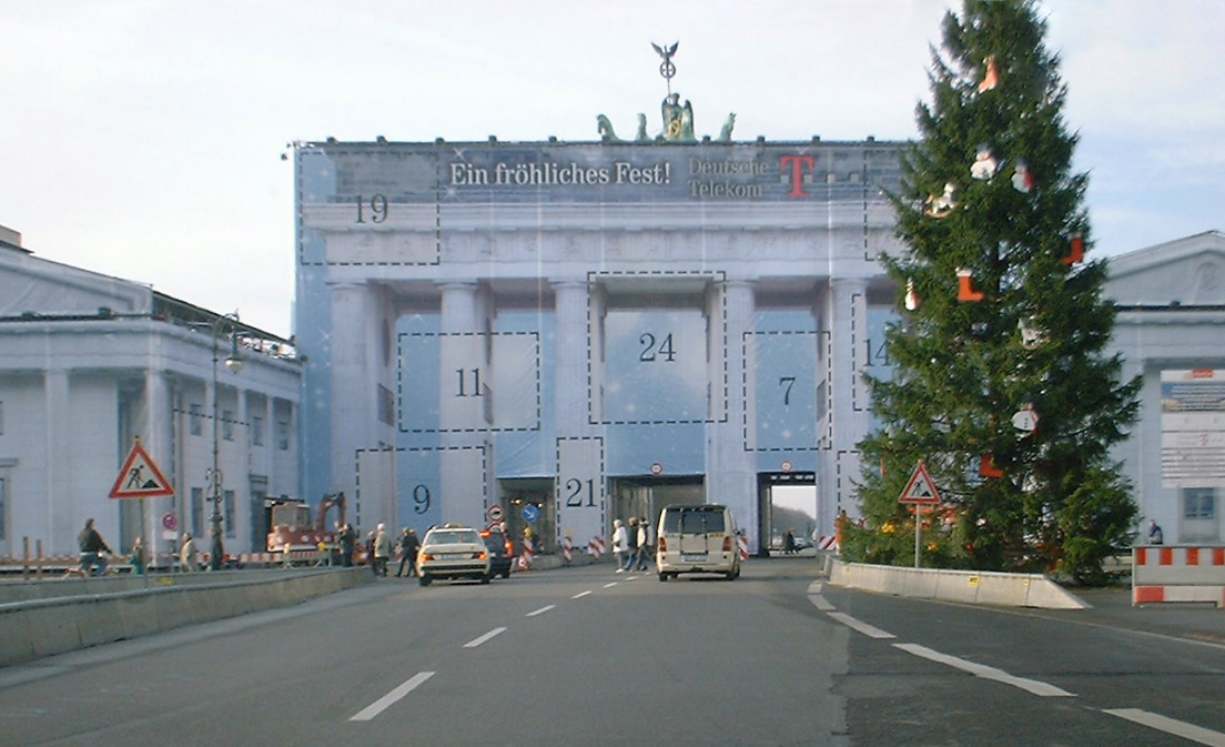 Brandenburg Gate in December 2000, covered due to renovation